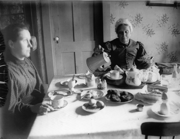 Constance Clare Bancroft, Knowlton by Sally Eliza Wood